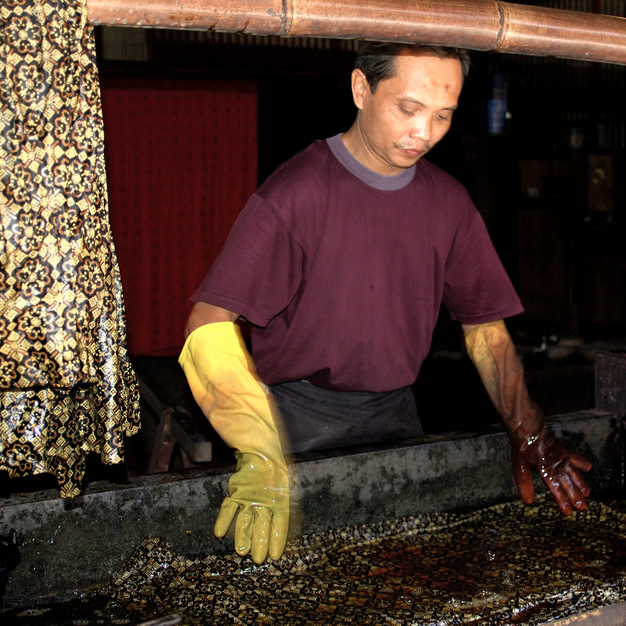 The making of Batik on Java, Indonesia.